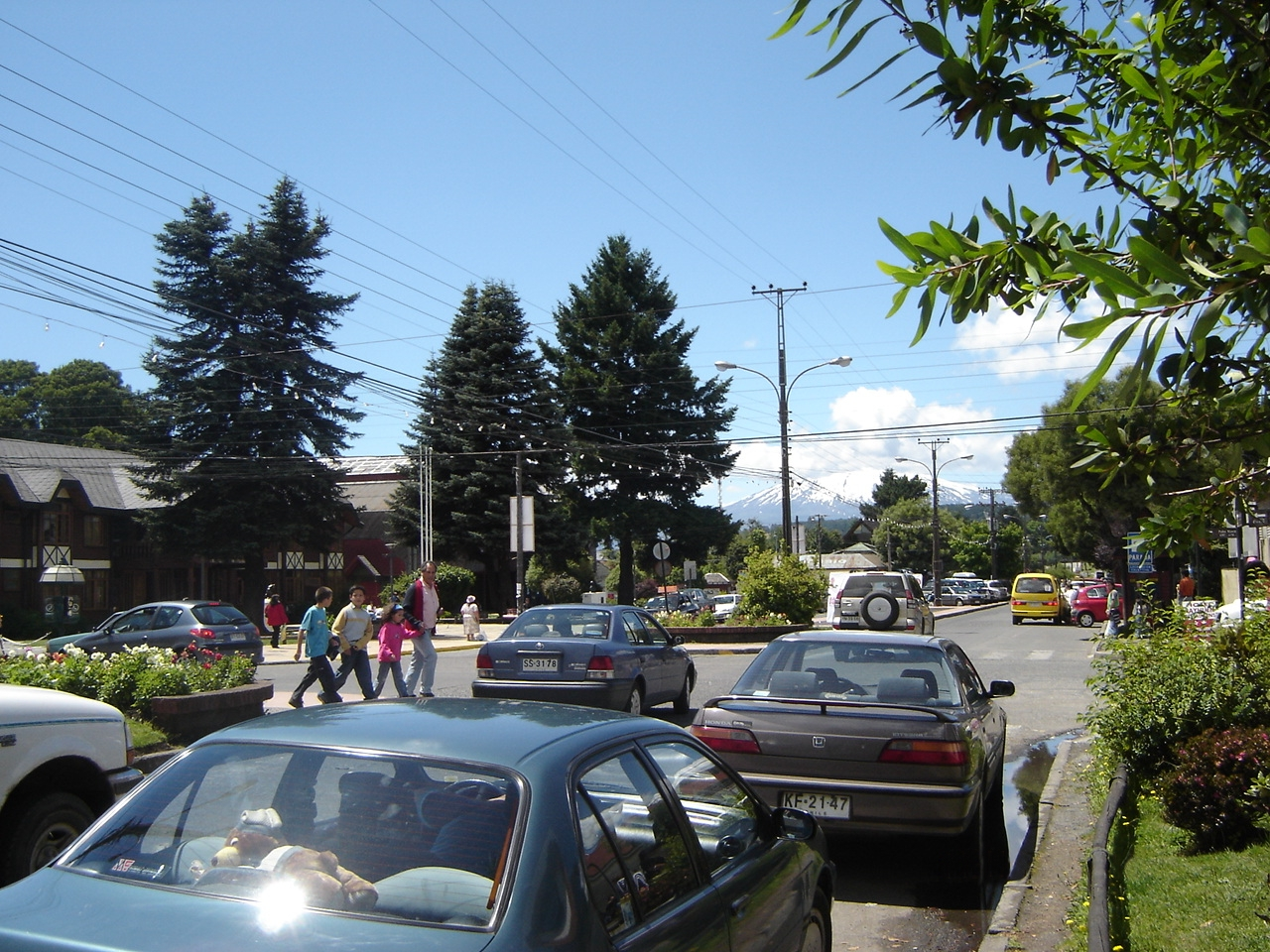 Photo taken by me on january 2006. City of Villarrica, Chile.